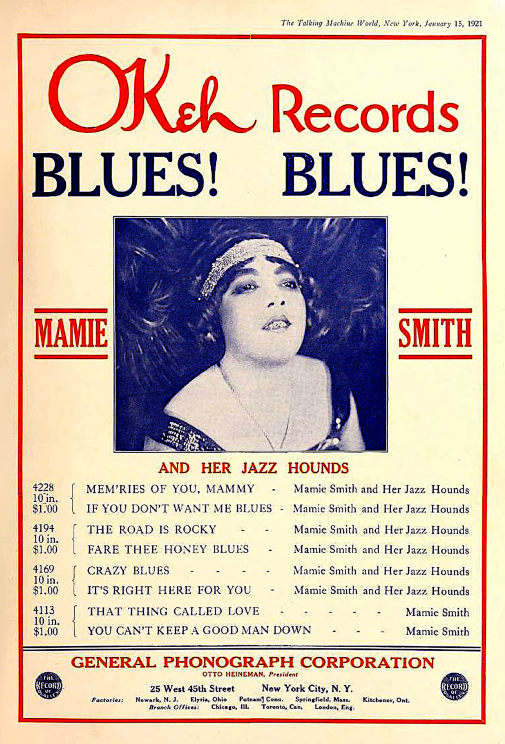 OKeh's Advertising at Talking Machine World